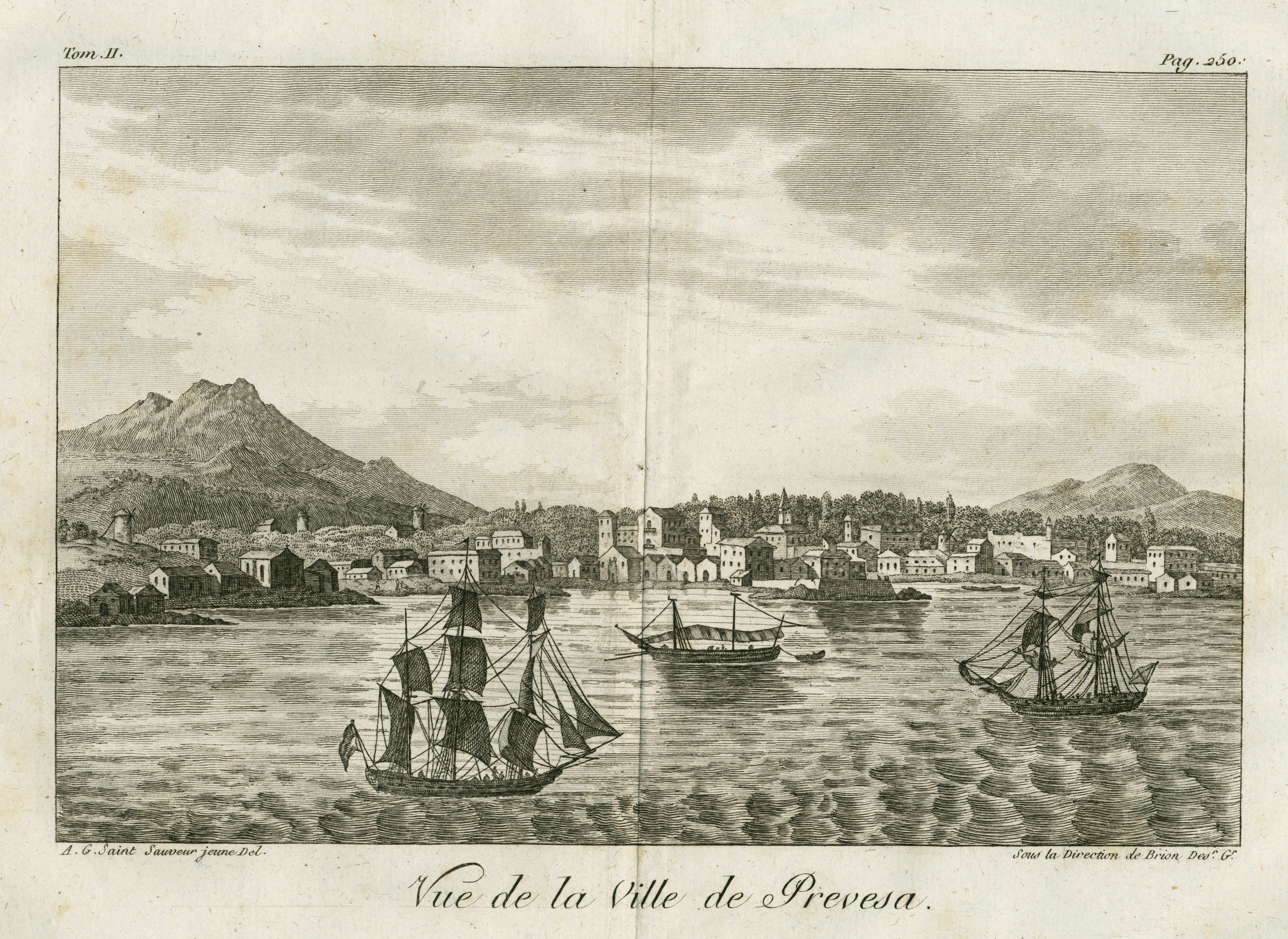 View of the city of Preveza. Copper engraving by Andre Grasset de Saint Sauveur, 1800. Nikos D. Karabelas map collection, Actia Nicopolis Foundation, Preveza, Greece.